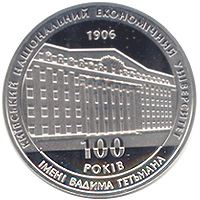 Coin of Ukraine